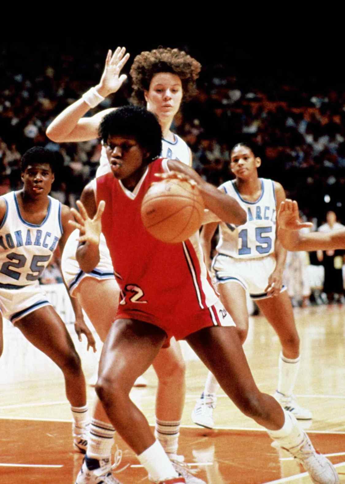 Katrina McClain, Dawn Cullen, Tracy Claxton, and Donna Harrington in the 1985 Final Four championship game